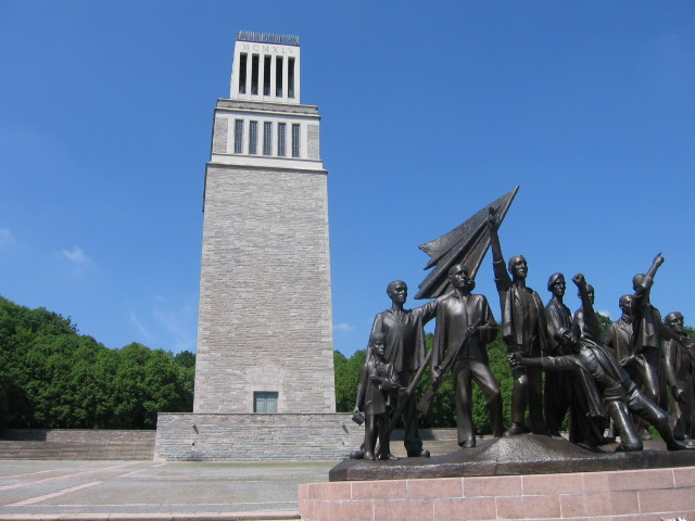 The memorial at Buchenwald, June 2006. Stephen Bell